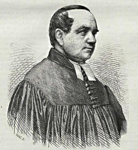 Portrait of Lajos Geduly